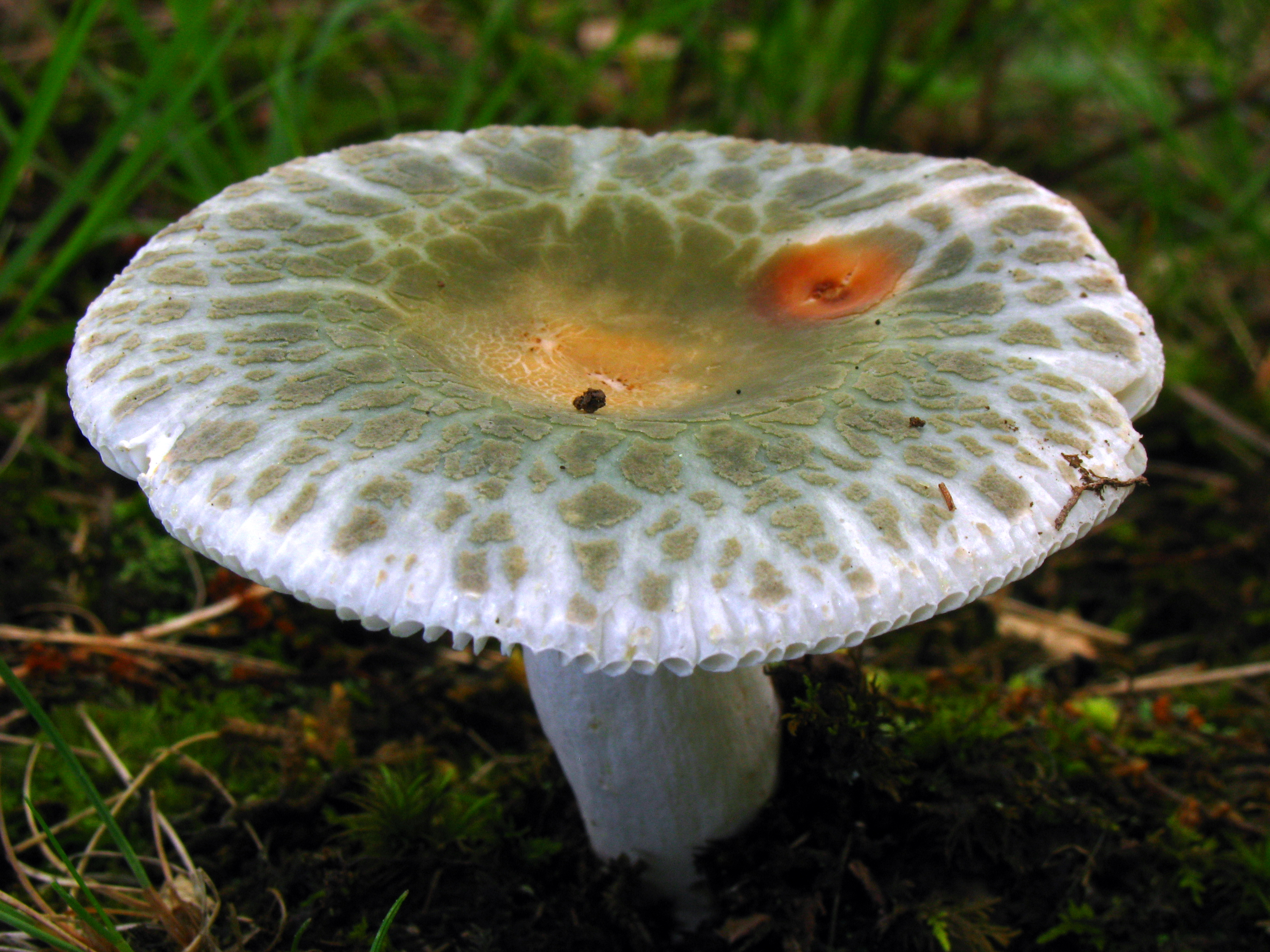 Russula parvovirescens Buyck, D. Mitch. & Parrent For more information about this, see the observation page at Mushroom Observer.